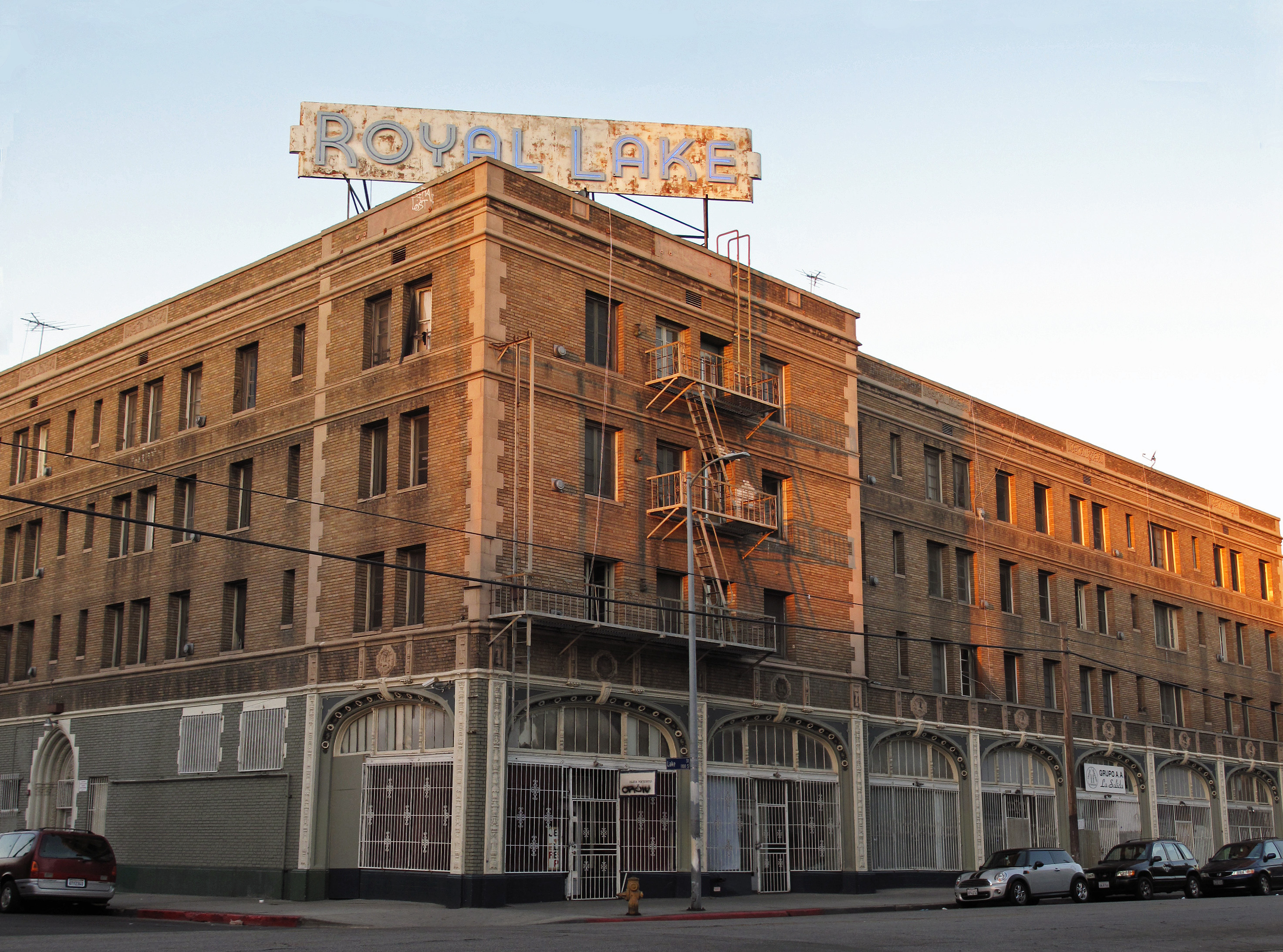 The Royal Lake Apartments, at 2202-2220 W. 11th St., in the Pico-Union neighborhood of Los Angeles, California. This is a two-shot panorama. Note: This has a Los Angeles Historic-Cultural Monument number, #2445, but is not a Los Angeles Historic-Cultural Monument. It is covered by the Pico-Union Historic Preservation Overlay Zone.